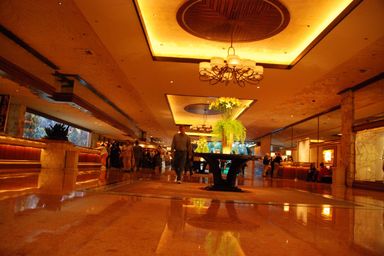 waiting in the lobby for our rental car